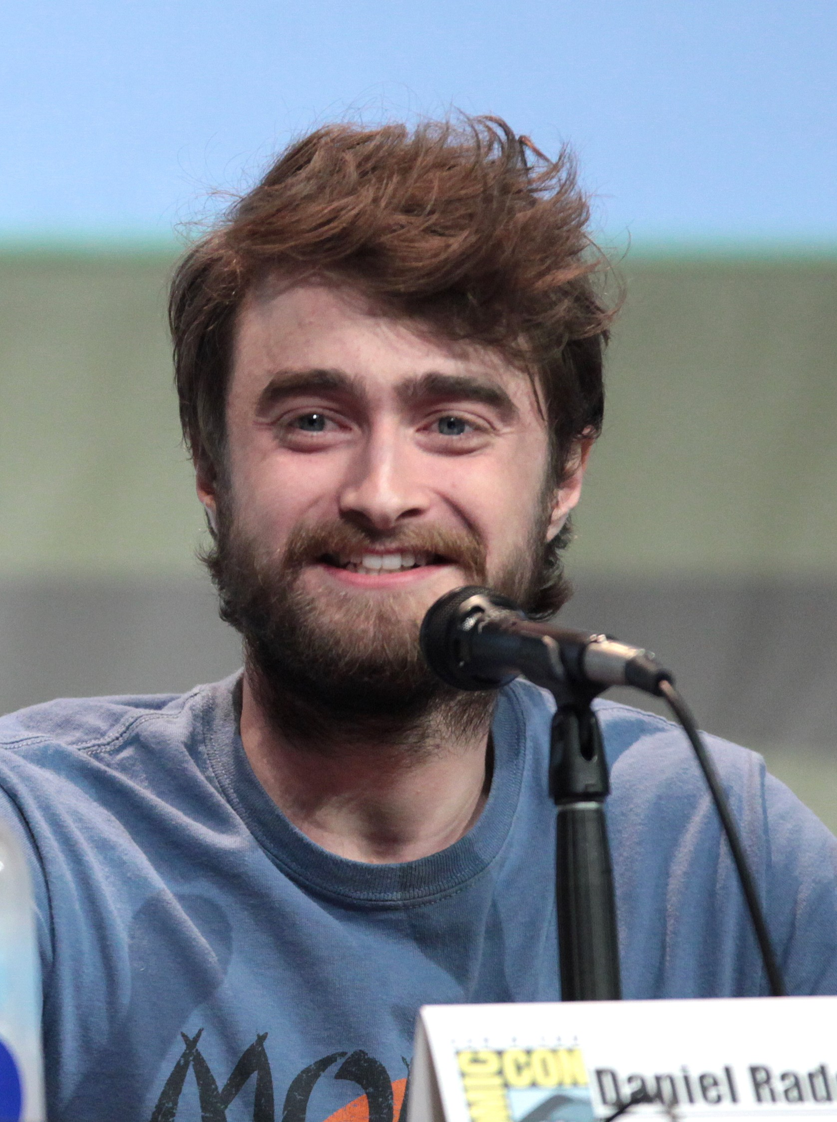 Daniel Radcliffe speaking at the 2015 San Diego Comic Con International, for "Victor Frankenstein", at the San Diego Convention Center in San Diego, California.